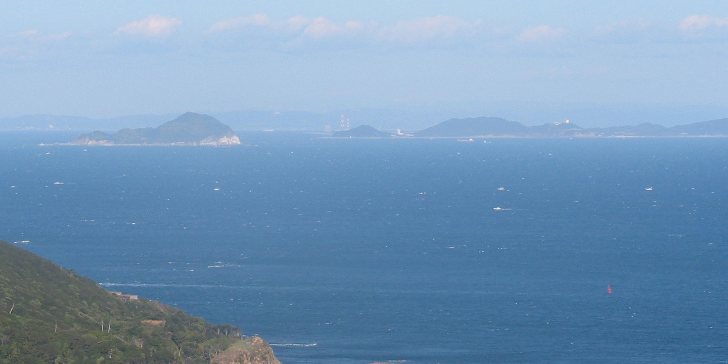 The Irago Channel (between Kamishima Is. and Cape Irago) view from Toba-Observatory I took this image at the Toba-Observatory ("Perl-Road"), Kuzaki, Toba, Mie Pref., Japan.